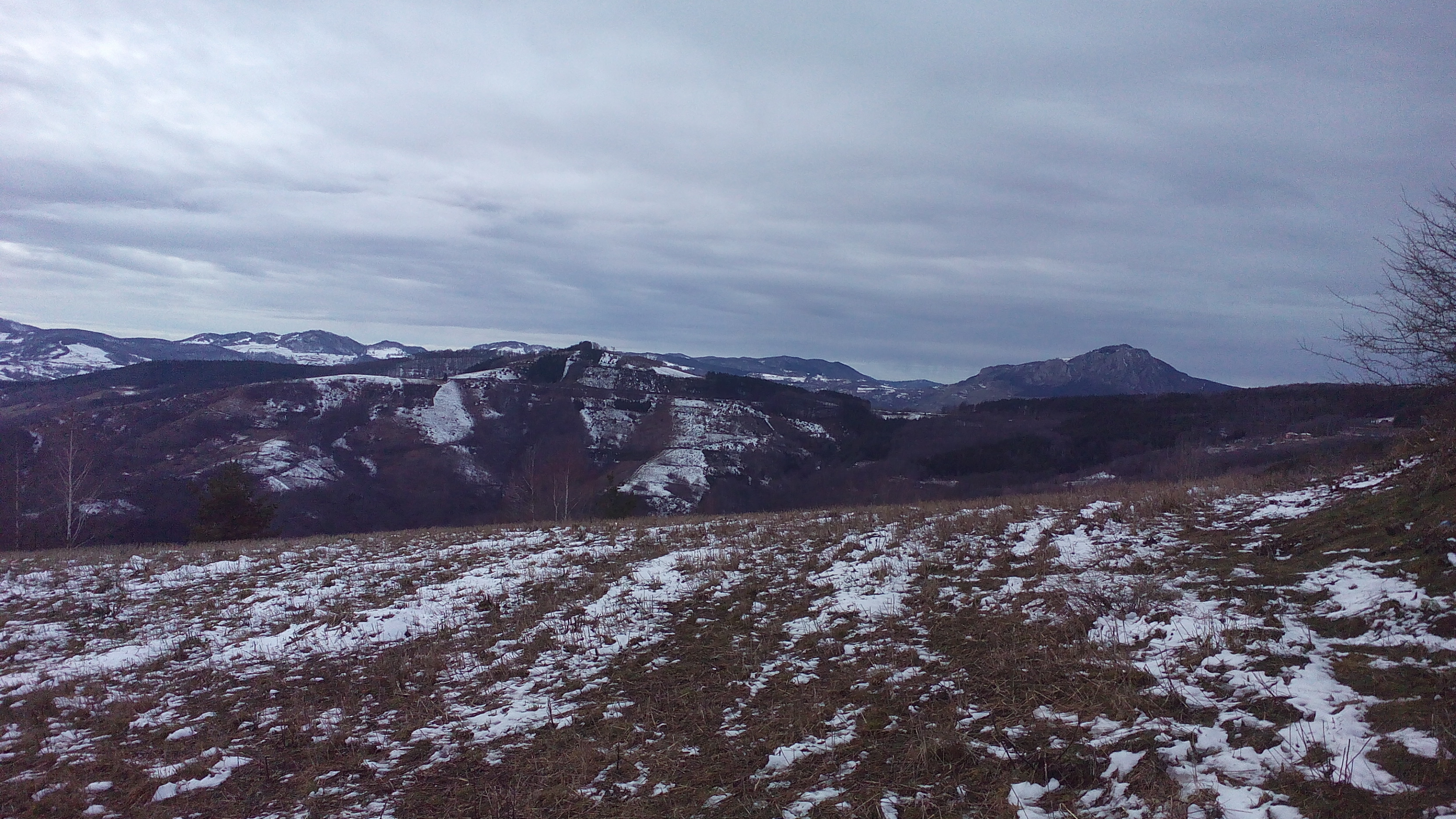 Winter landscape of Opaljenik, Ivanjica with view on Mountain Mučanj in the right corner - 21 February 2016